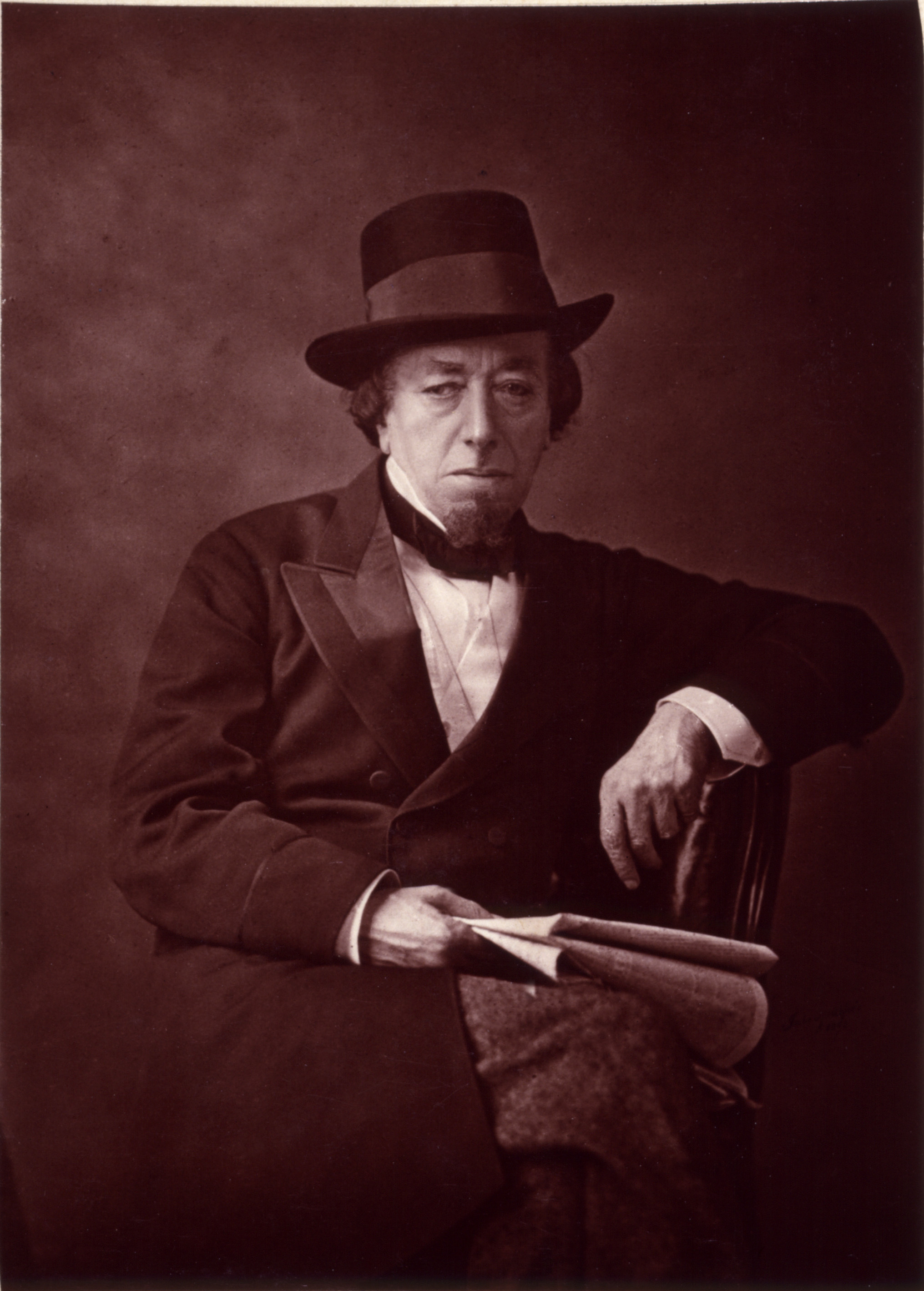 Depicted person: Benjamin Disraeli – British Conservative politician, writer, aristocrat and Prime Minister